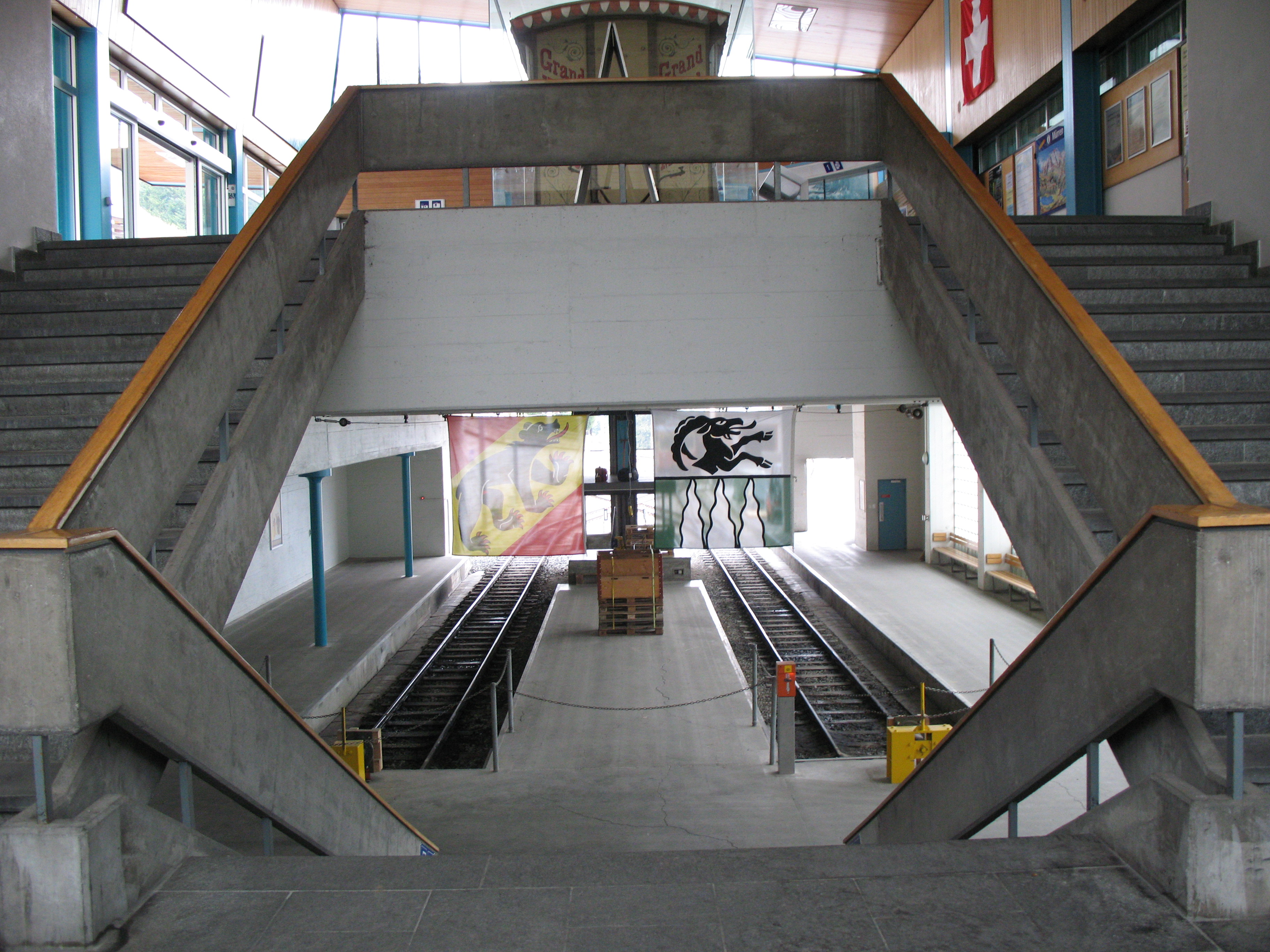 The staircase in Mürren railway station on the Bergbahn Lauterbrunnen-Mürren, connecting the concourse (upper level) and platforms (lower level).